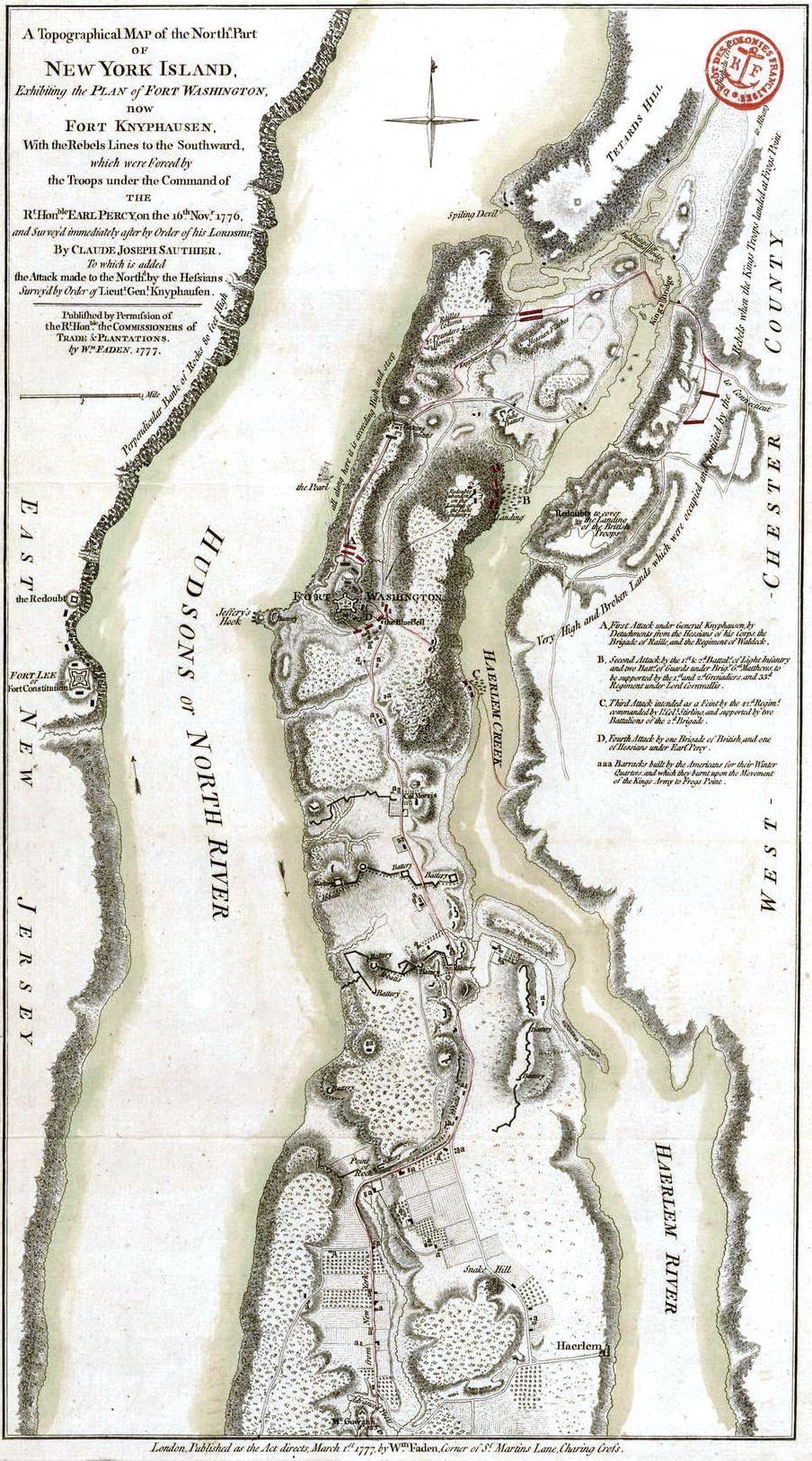 A Topographical map of North. Part of New York Island, exhibiting the Plan of Fort Washington now Fort Knyphausen with the Rebels Lines to the Southward which were Forced by the Troops under the command of the R. Hon. Earl Perey on the 16th nov. 1776 and survey'd immediatly after by Order of his Lordship.